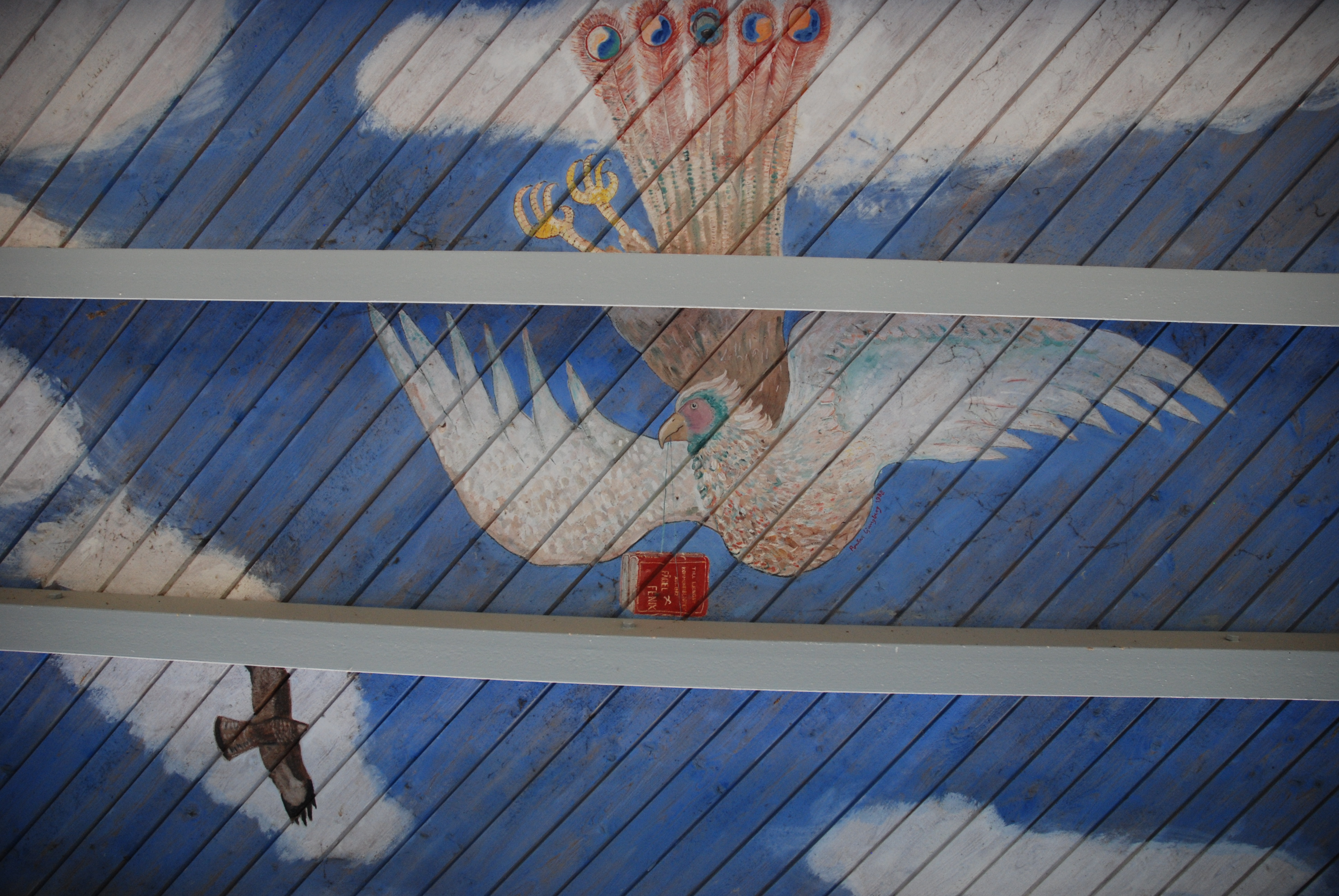 Phoenix, ceoiling painting on the protective roof over the entrance to the Ljungby Library, Ljungby, Sweden